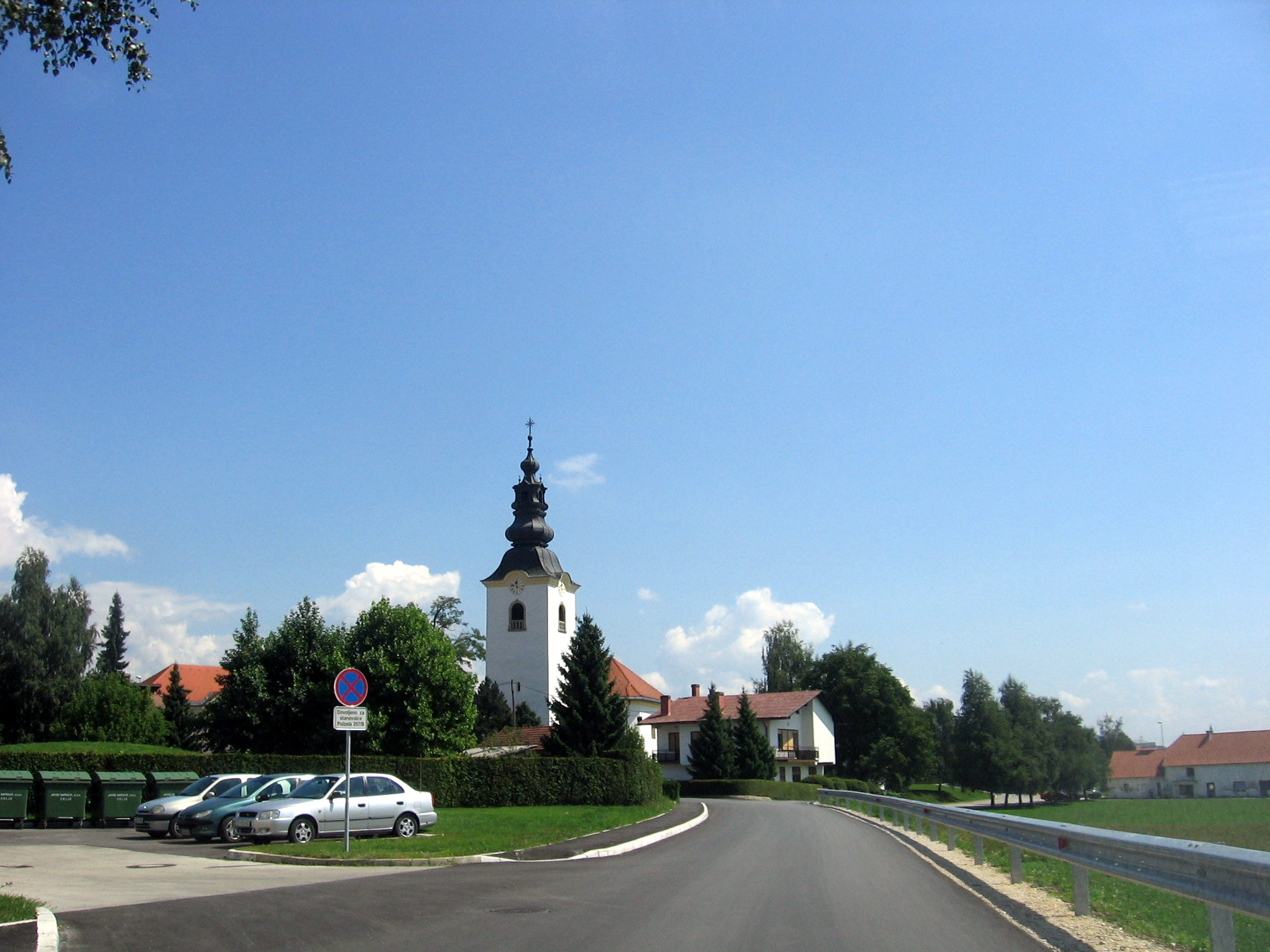 Church in Polzela in Slovenia